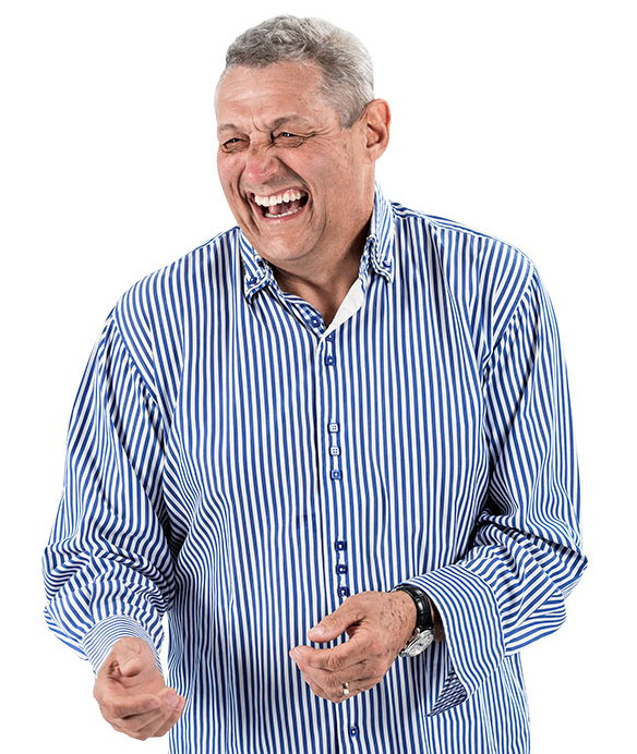 Barry Hilton, SA Comedian having a chuckle